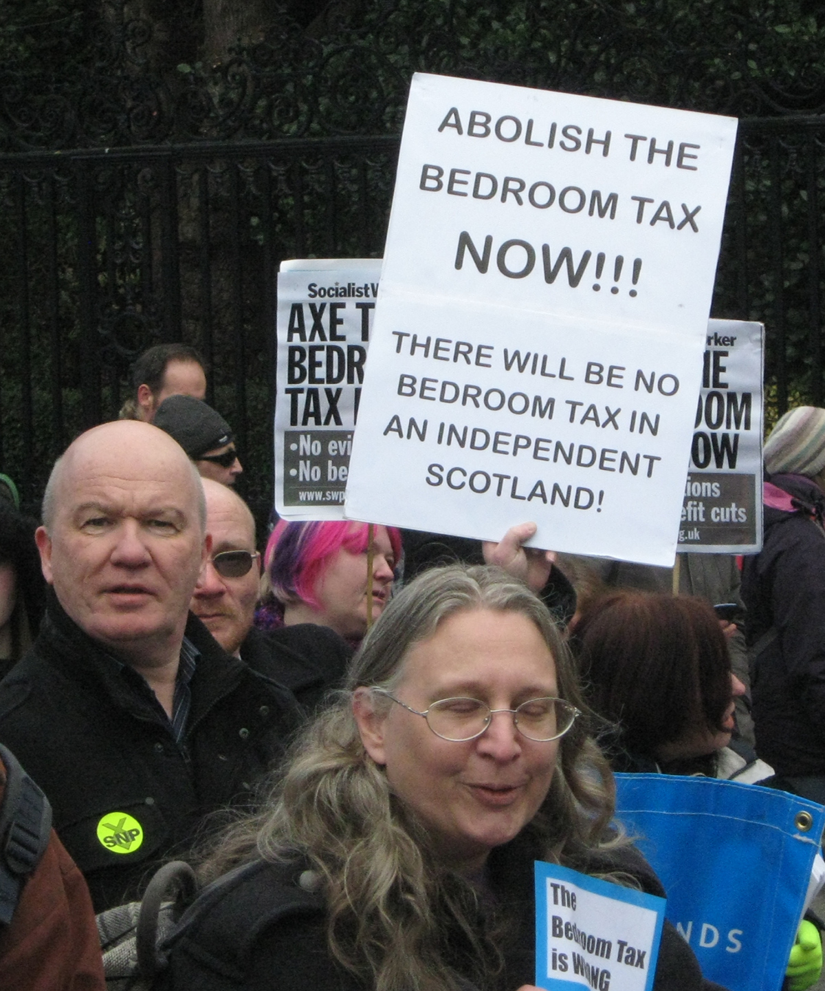 English